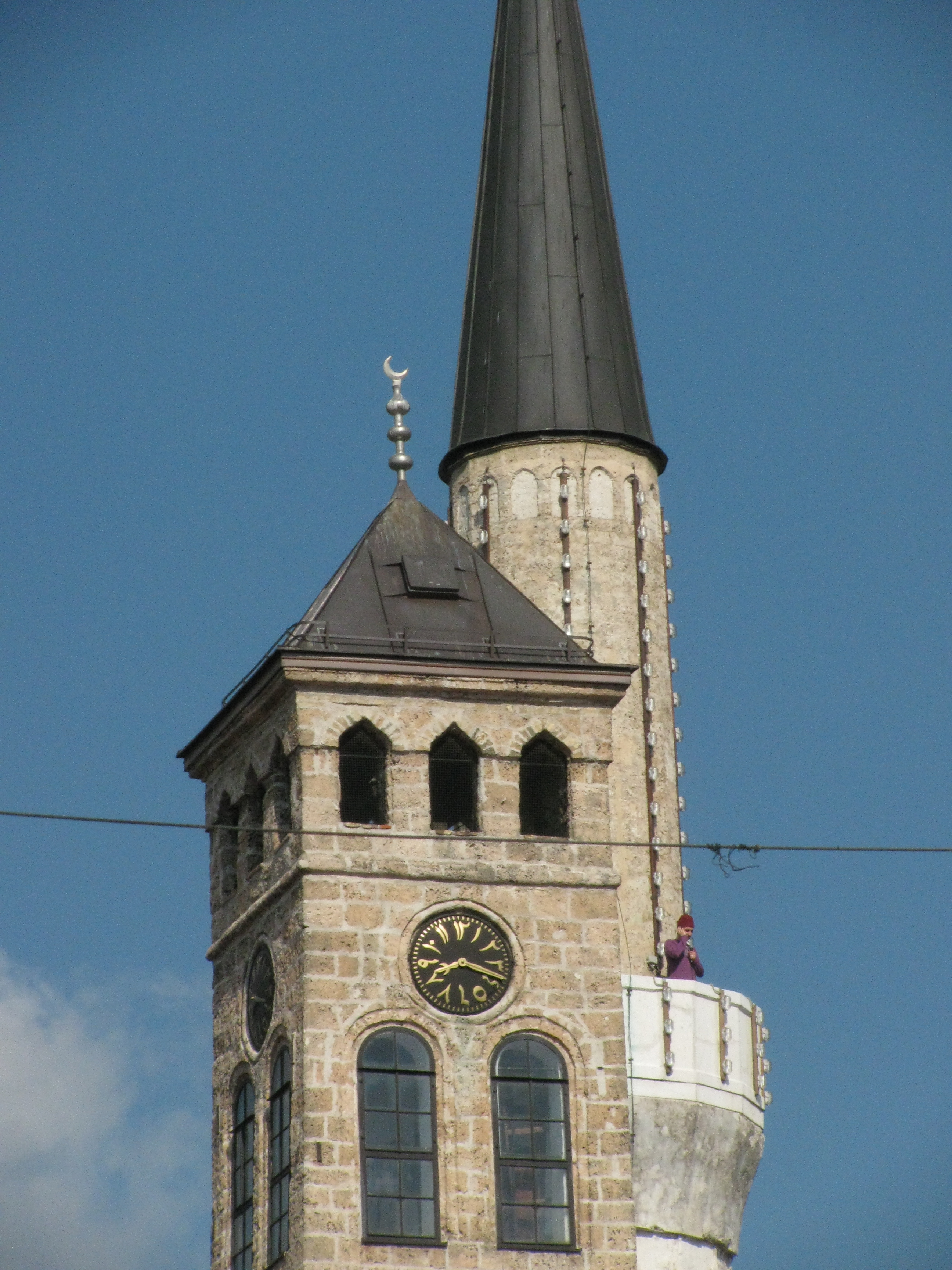 Call to prayer - Gazi Husrev-beg Mosque, Sarajevo